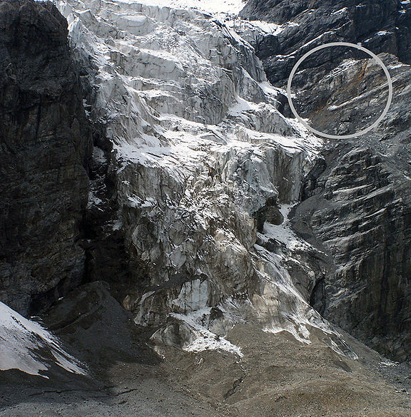 glacier at the Ortler